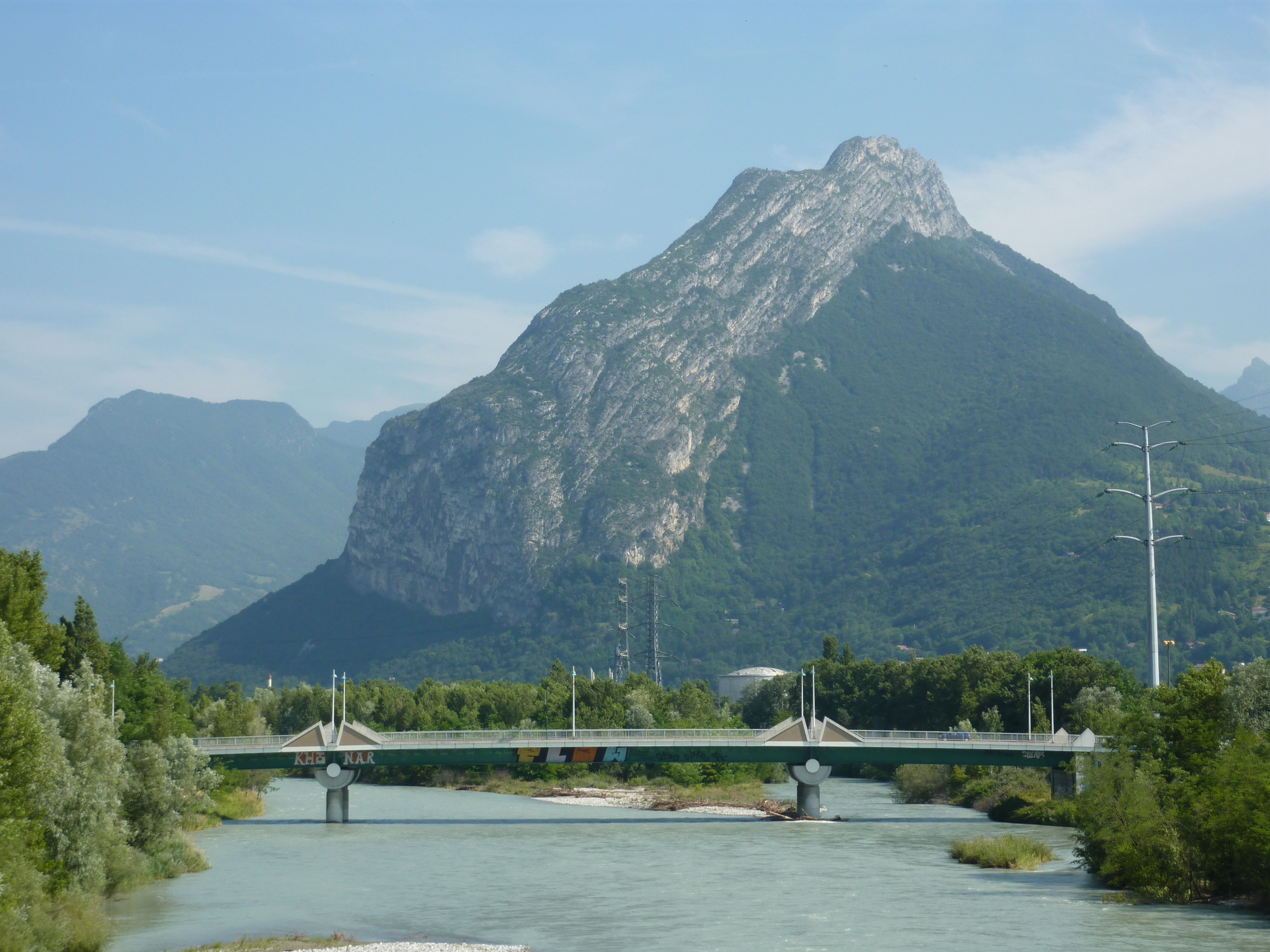 The Néron and the Vercors bridge, shot from the Esclangon bridge in Grenoble